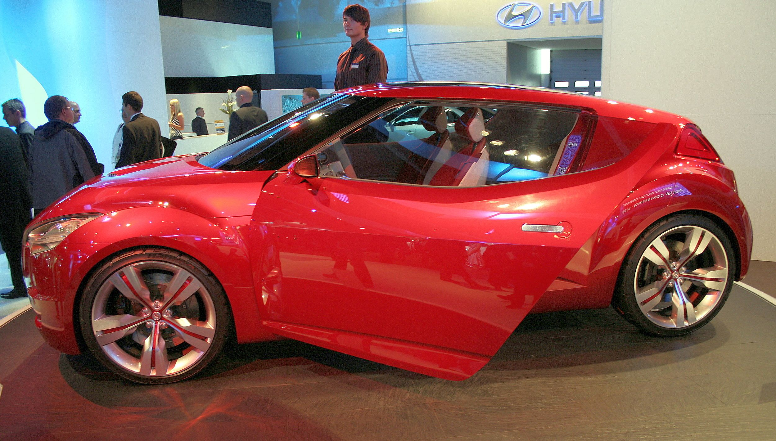 Image from IAA 2007 in Frankfurt am Main